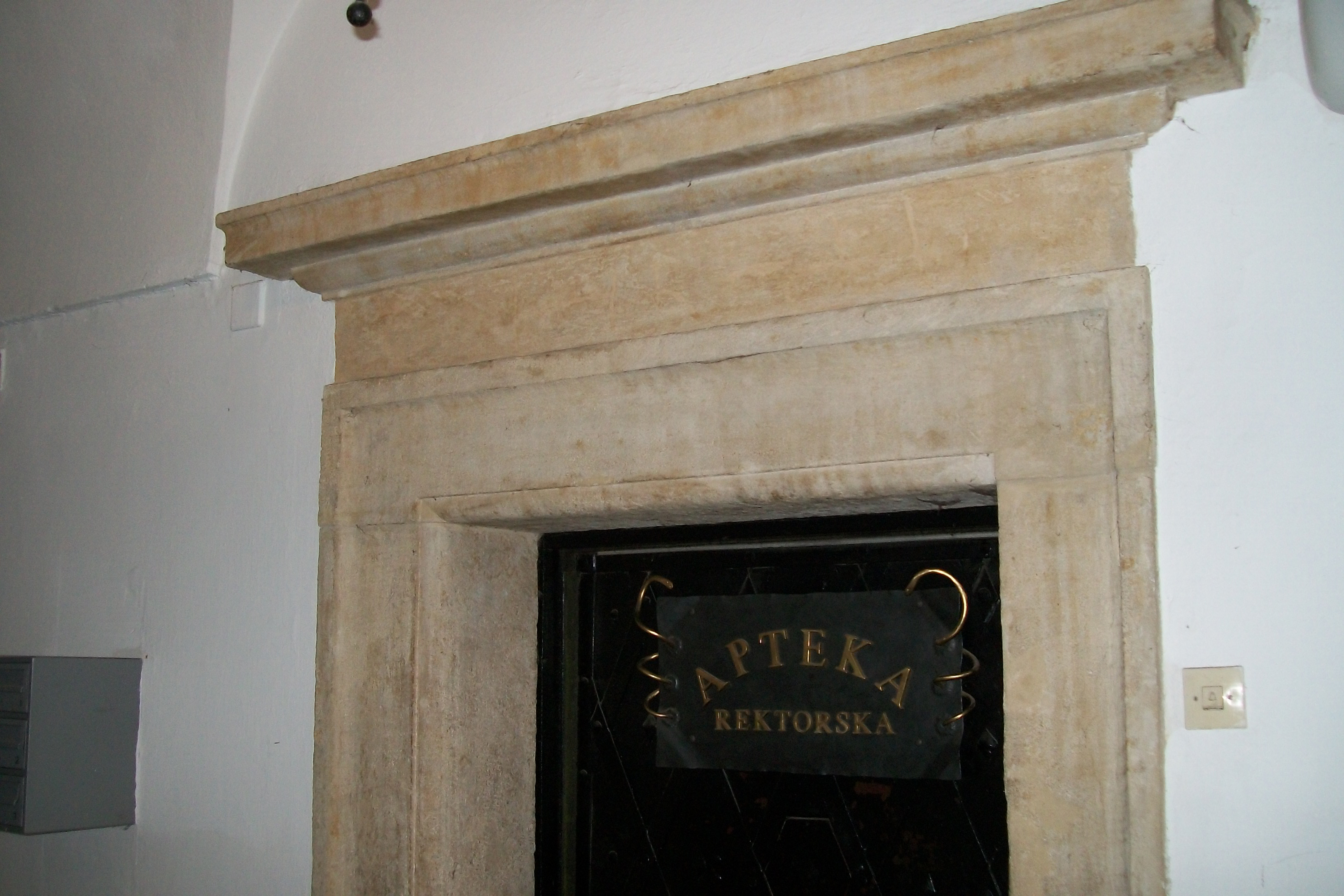 Pharmacy "Rektorska" in Zamość